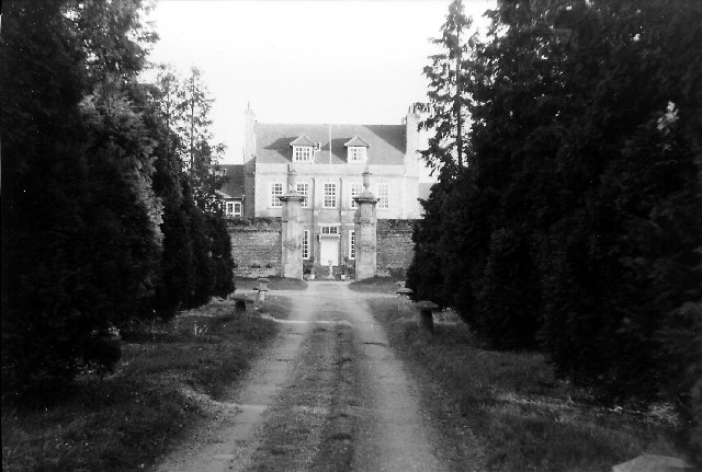 Byfleet Manor. Byfleet Manor was originally a royal hunting lodge which was given by Edward II to Piers Gaveston, his reputed lover. It was rebuilt in 1619 by Anne of Denmark, wife of King James I at the house's last royal owner, but she died before it was finished. The massive front walls and gate piers date from that time. It was then rebuilt again in 1685 because it was reported to be in ruinous condition! This resulted in a much smaller building. It was restored in 1905 when it was again enlarged by adding asymmetrical wings.